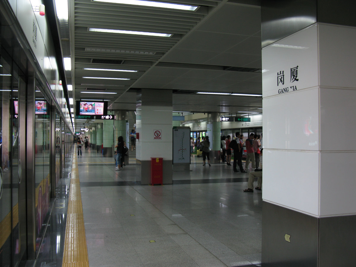 Line 1 Platform of Gang Xia Station, Shenzhen Metro, view towards Hui Zhan Zhong Xin Station